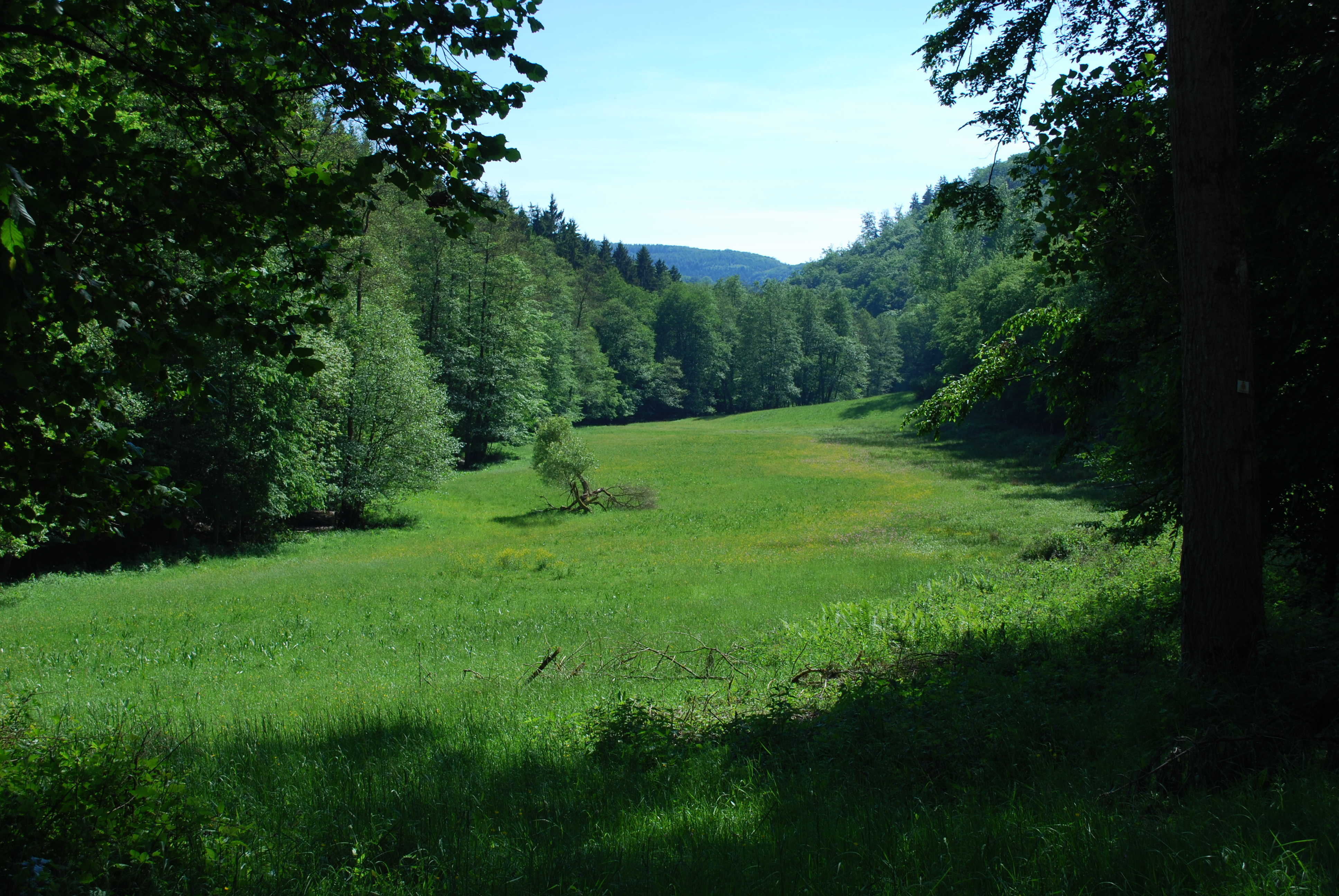 Meadow in Hesse, Germany.